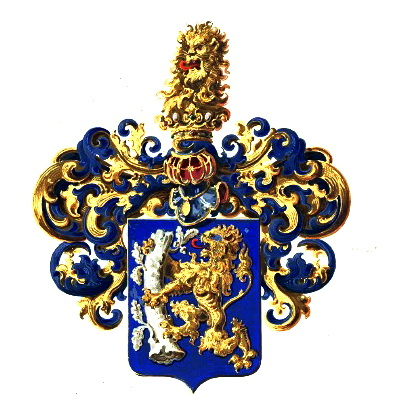 Coat of arms of the David Grimm